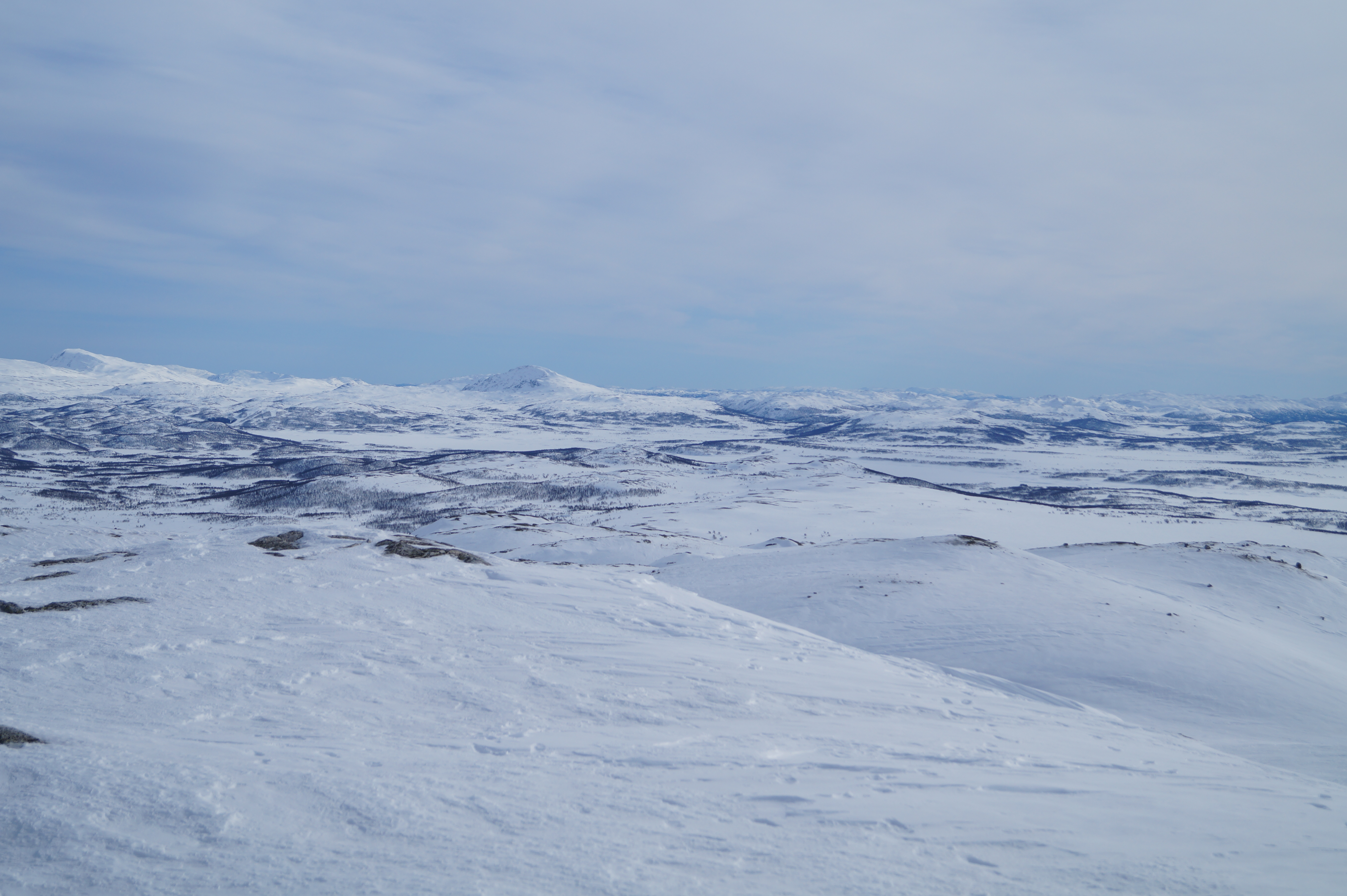 Bågåfjellet